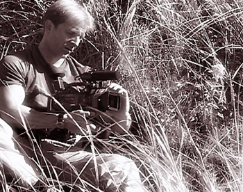 Description= Documentary filmmaker Christopher Seufert Soutce= Own work Date= September, 2003 Author= Christopher Seufert Permission= Creative Commons